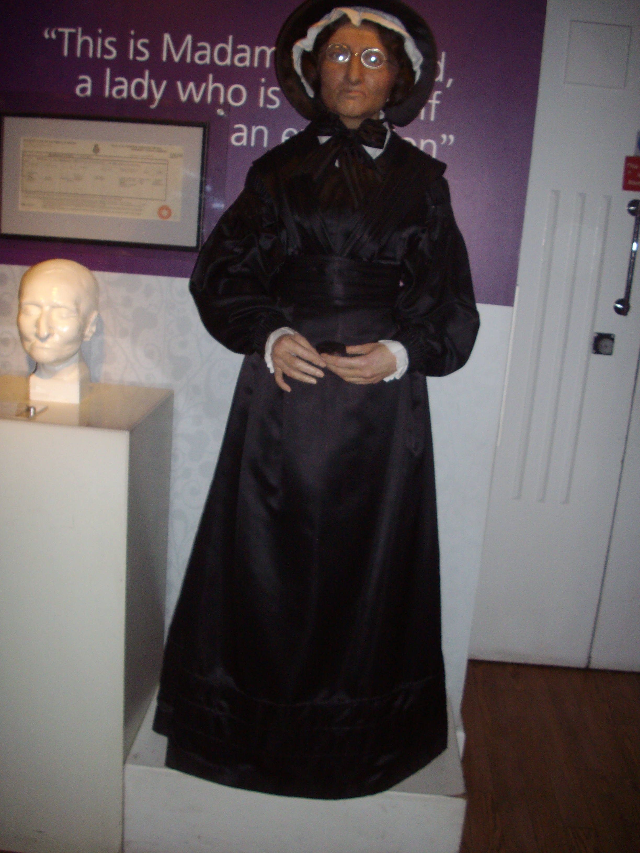 The wax statue of the creator of "Madame Tussauds waxworks", Madame Tussaud herself in the museum.